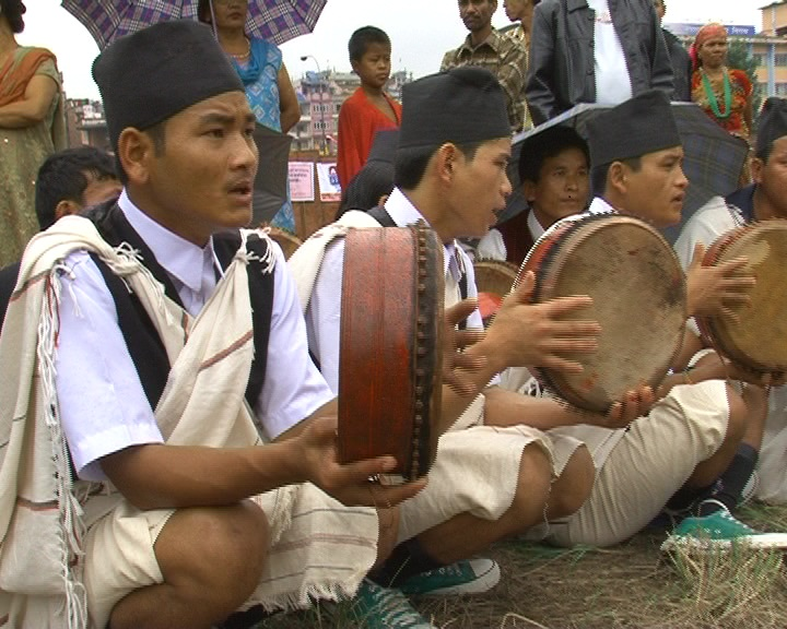 Nepali traditional musical Instrument